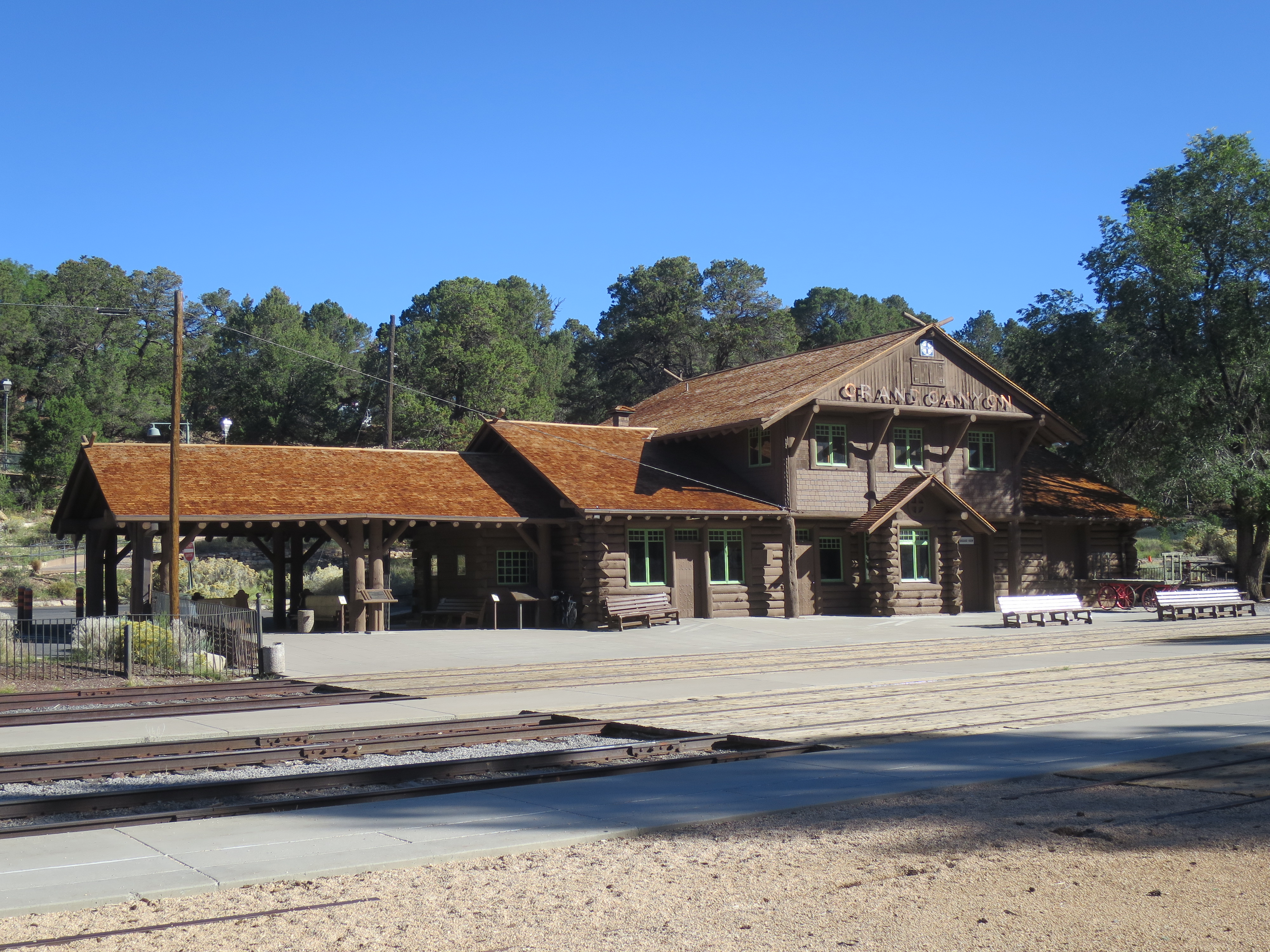 Grand Canyon Station